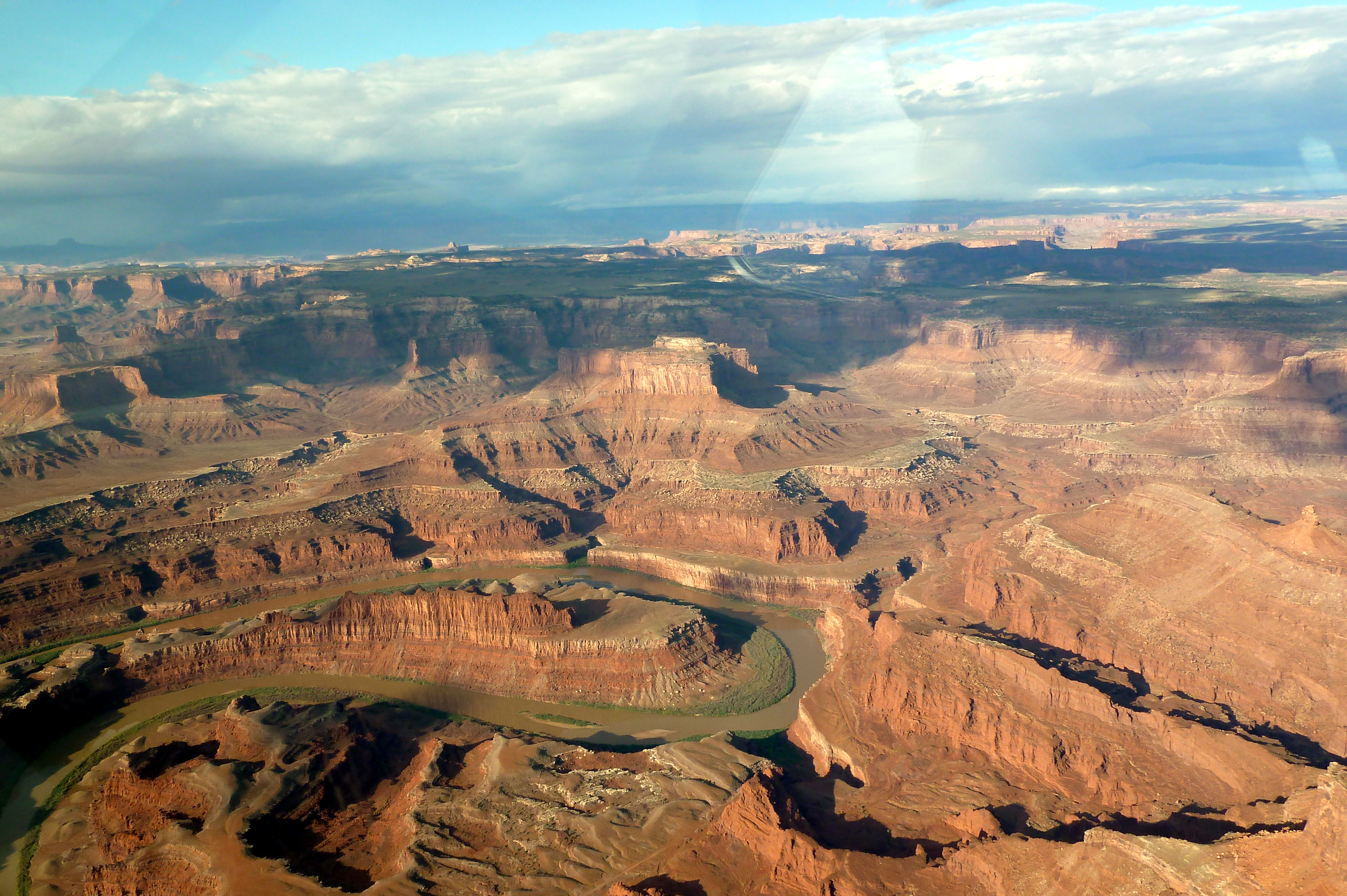 Víew on the Dead Horse Point.